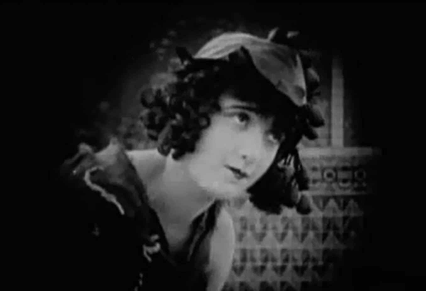 Low resolution screenshot from the public domain version of the film Intolerance (1916). A scene from the Babylonian story of the film. The Mountain Girl (Constance Talmadge) looks up after meeting Prince Belshazzar.